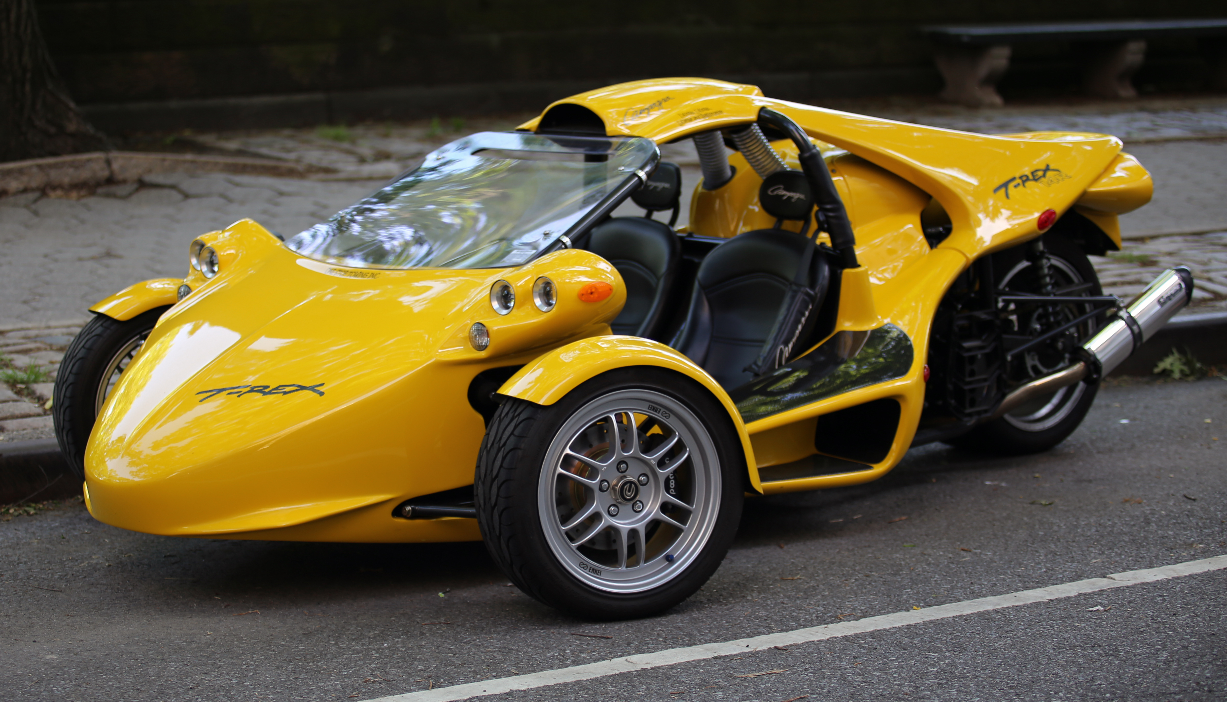 Front view of a Campagna T-Rex 14-R. Kawasaki Ninja 1400 engine.